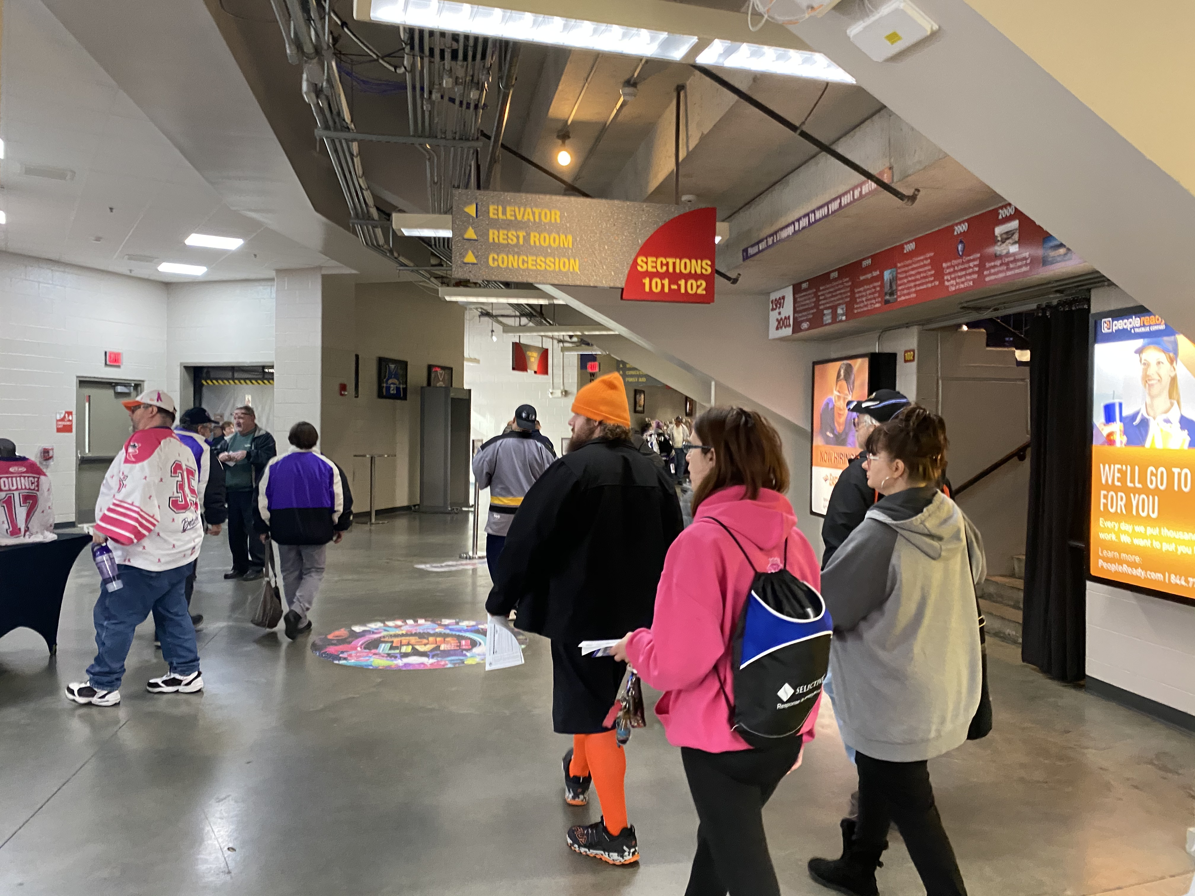 The concourse at Santander Arena